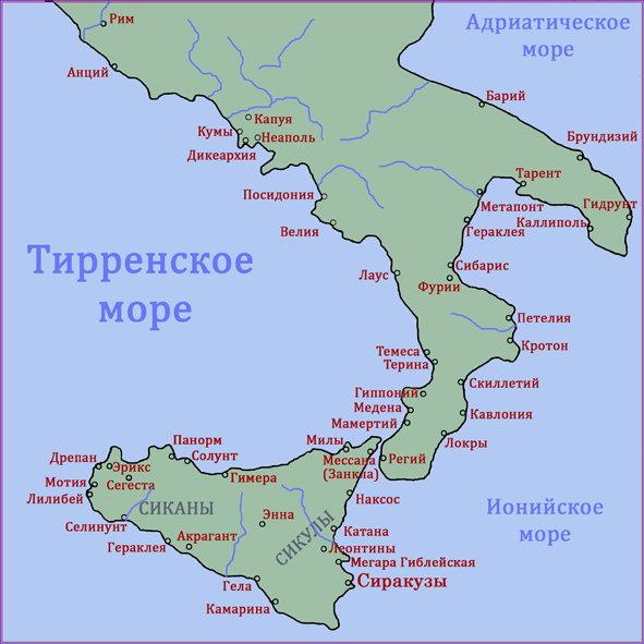 Map of Great Greece